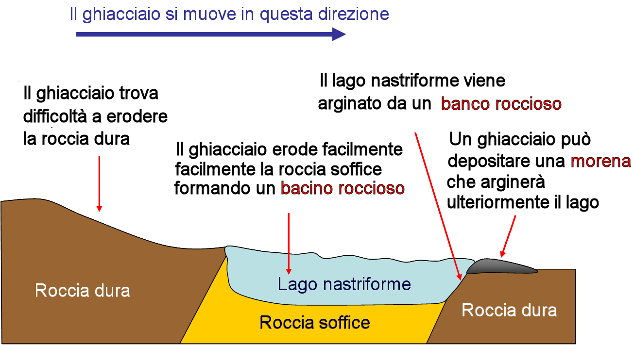 S Knights, my diagram